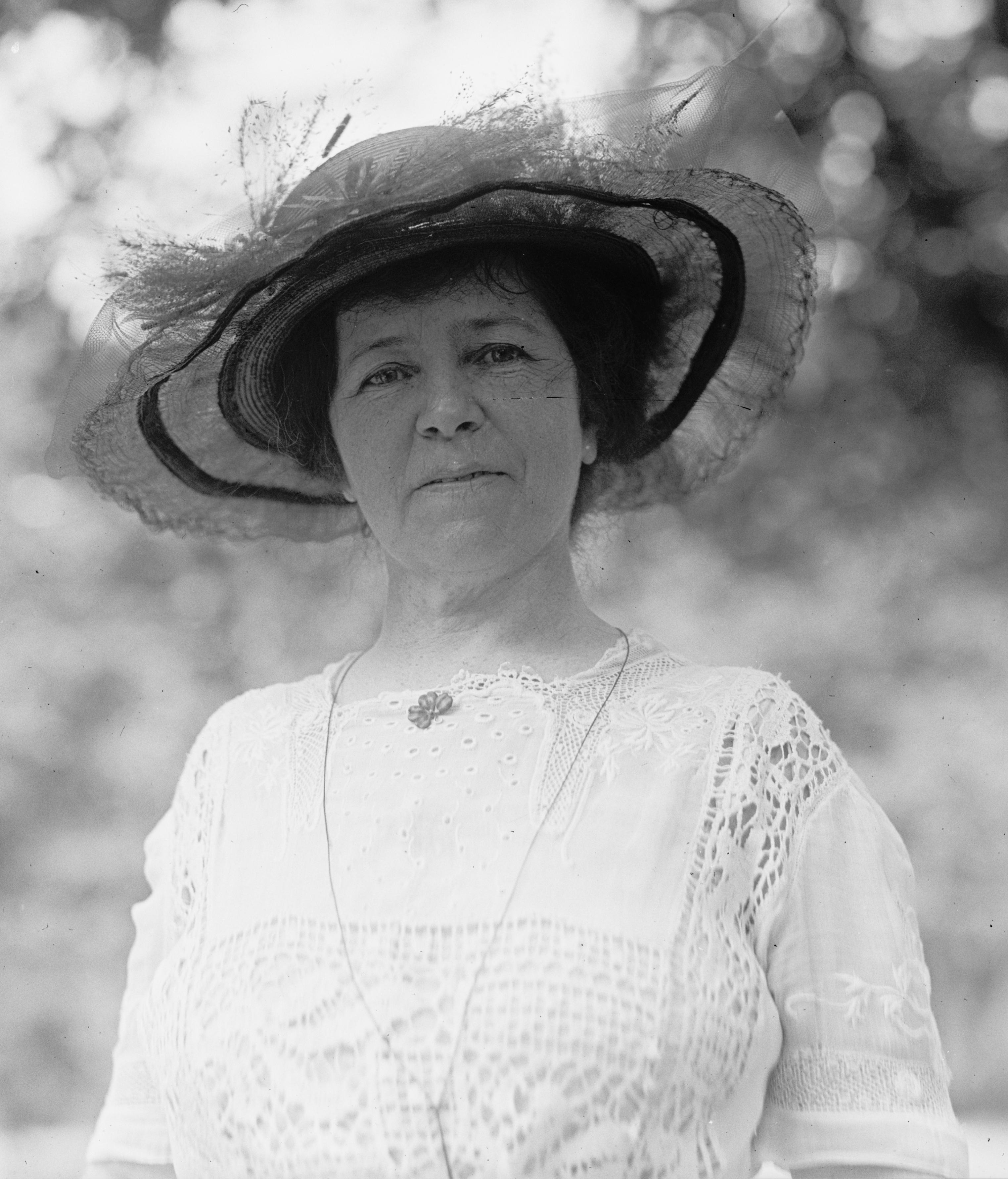 Elizabeth McEvoy Reno Ashurst(1874?-1939), wife of U.S. Senator Henry Fountain Ashurst